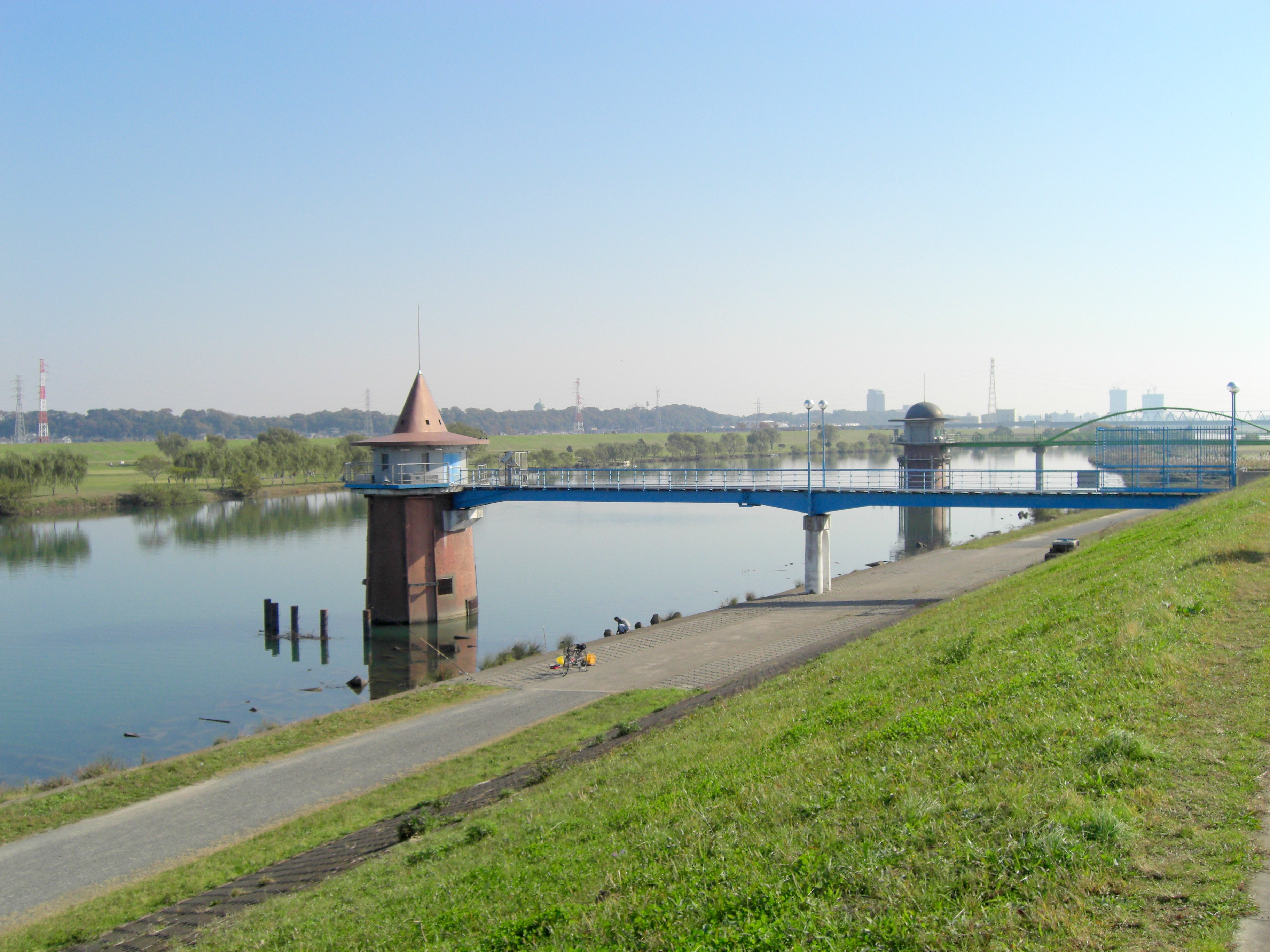 kanamachi water purification plant & Edo river.